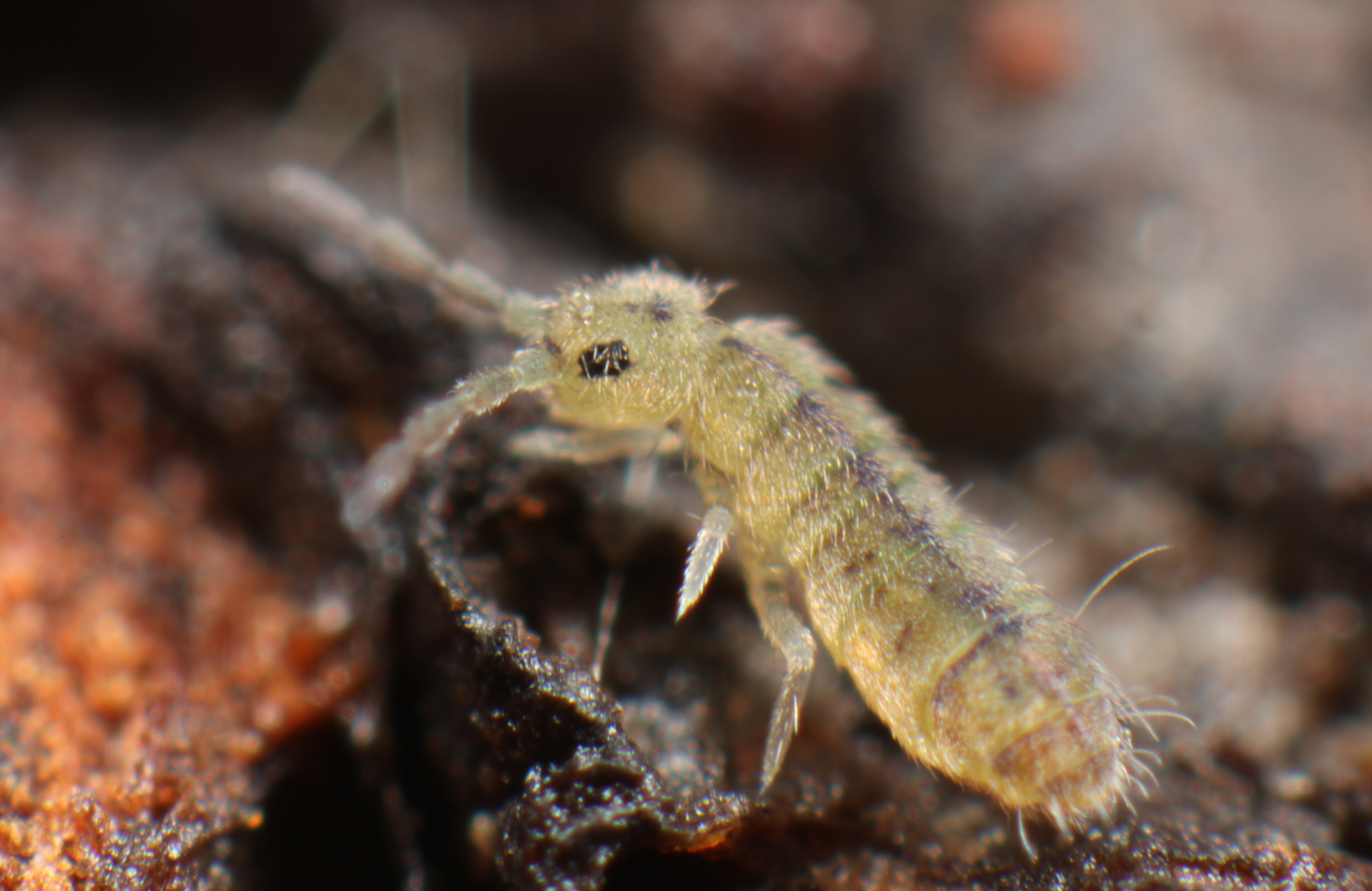 Isotomurus palustris from Switzerland.